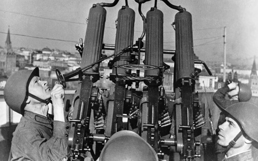 “Anti-aircraft gunners getting a machine-gun ready for a fight”. Anti-aircraft gunners getting a machine-gun ready for a fight during the defense of Moscow in WWII.